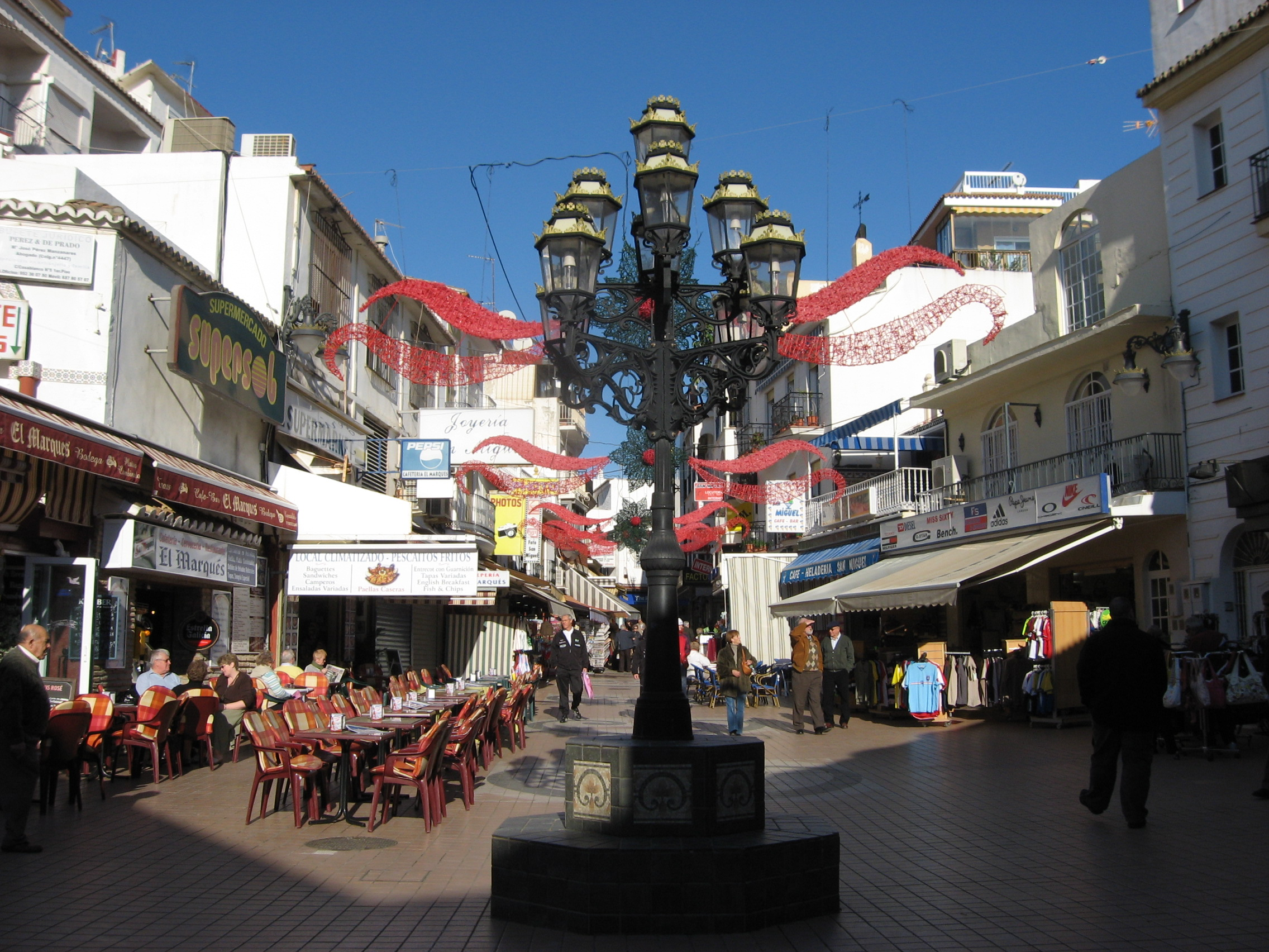 Street light in Calle San Miguel. Torremolinos, Spain.